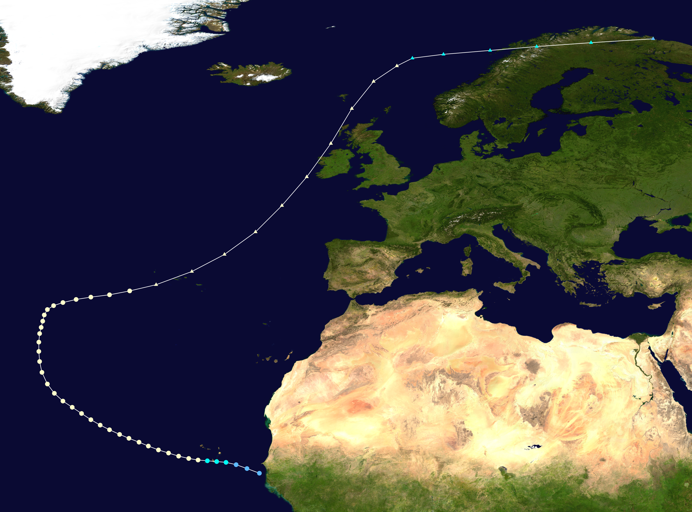 Track map of Hurricane Debbie of the 1961 Atlantic hurricane season. The points show the location of the storm at 6-hour intervals. The colour represents the storm's maximum sustained wind speeds as classified in the Saffir–Simpson scale (see below), and the shape of the data points represent the nature of the storm, according to the legend below. Saffir–Simpson scale Tropical depression≤38 mph≤62 km/h Category 3111–129 mph178–208 km/h Tropical storm39–73 mph63–118 km/h Category 4130–156 mph209–251 km/h Category 174–95 mph119–153 km/h Category 5≥157 mph≥252 km/h Category 296–110 mph154–177 km/h Unknown Storm type Tropical cyclone Subtropical cyclone Extratropical cyclone / Remnant low / Tropical disturbance / Monsoon depression